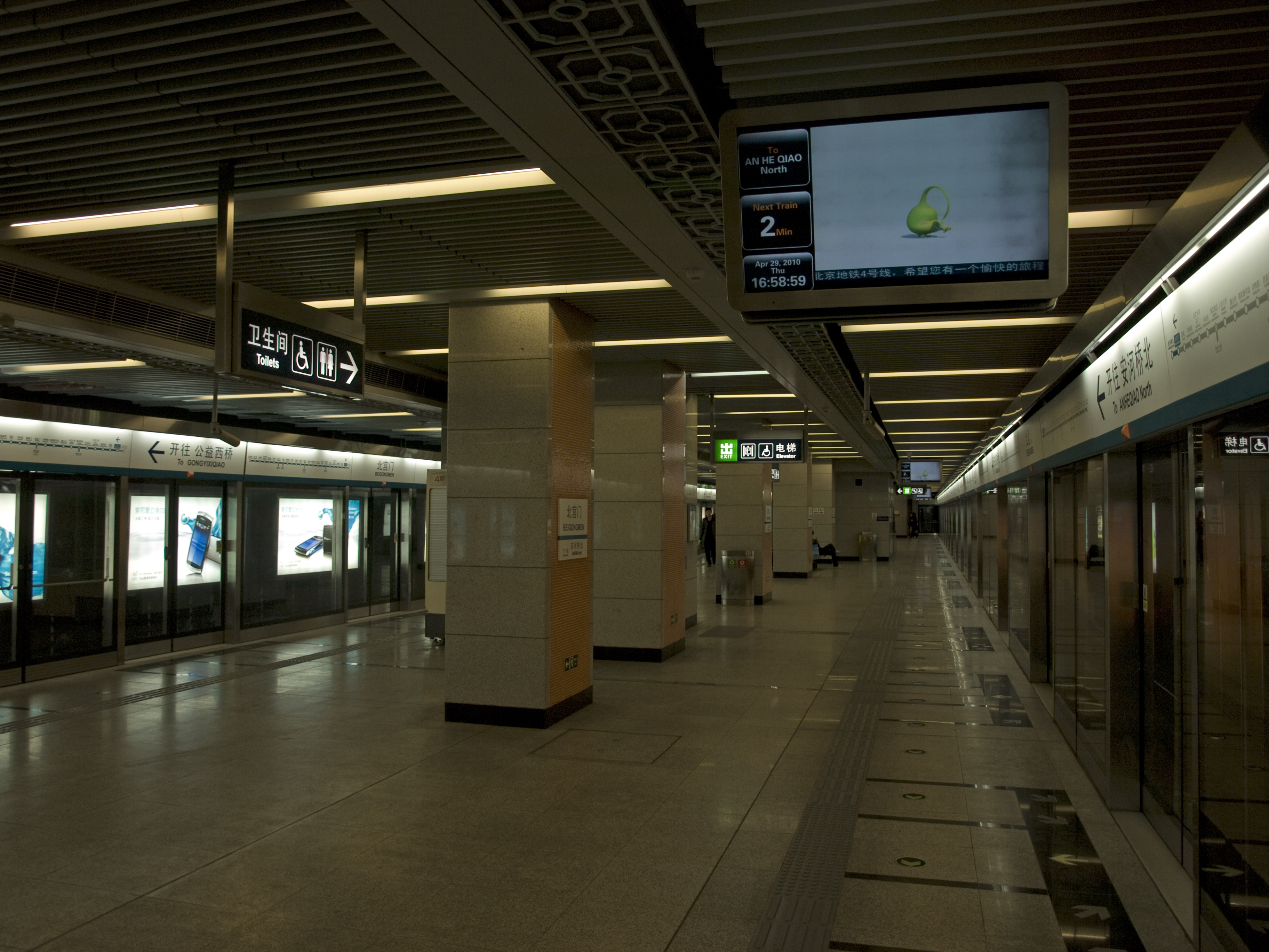 Beigongmen station, Beijing subway